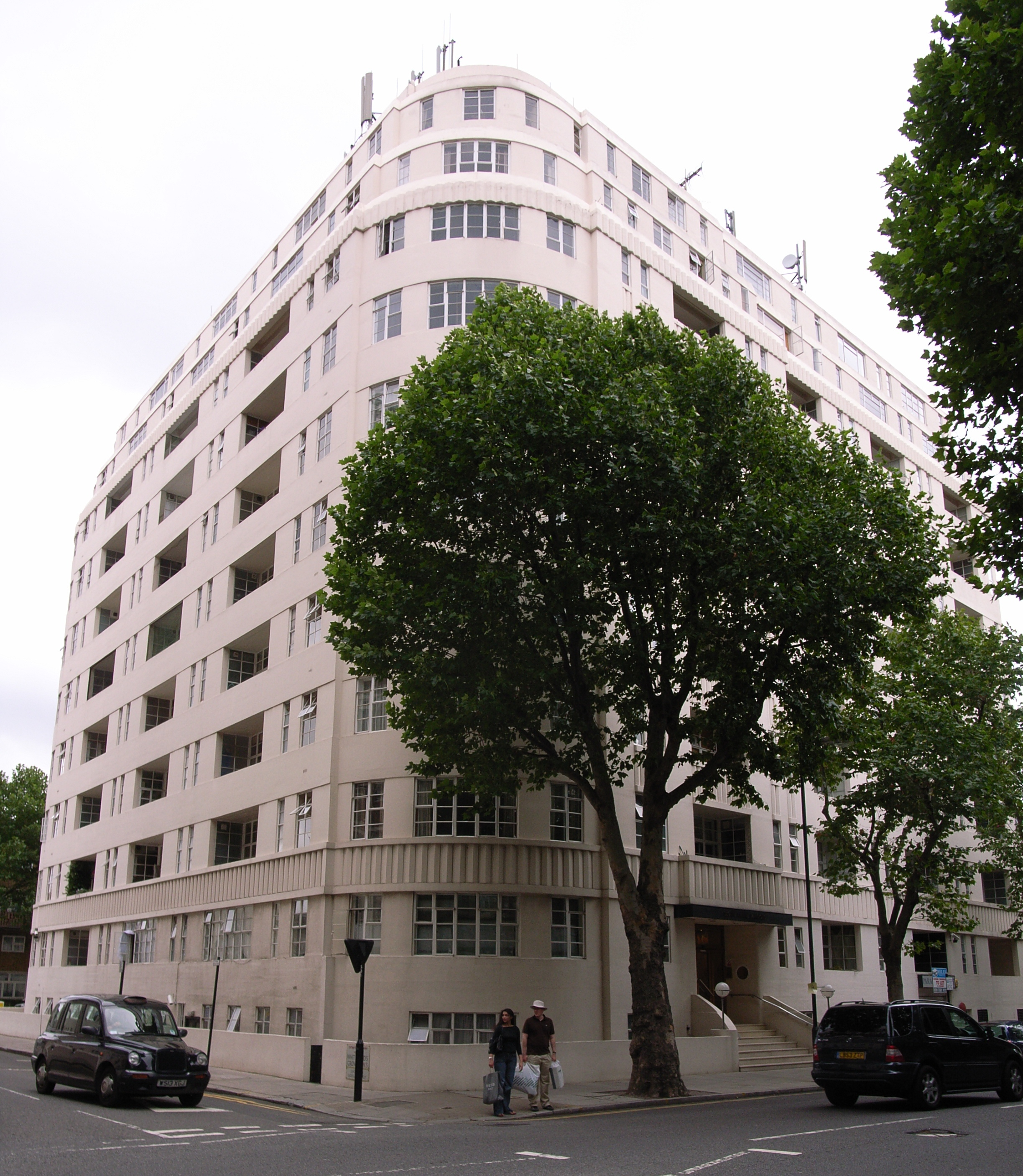 Sloane Avenue Mansions (1933-5) by G. Kay Green. Photo taken on a 20th Century Society walk around Kensington & Pimlico on 1st August 2009.